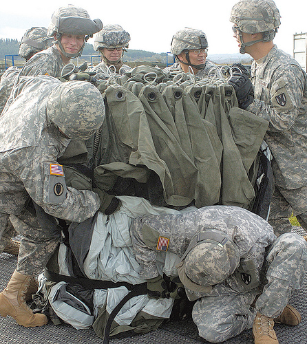 Soldiers with the 21st Theater Sustainment Command set up a DRASH tent system at Baumholder Airfield Oct. 21 in support of Agile Challenge 09. The 21st TSC is participating in a week-long field training exercise that tests the unit’s ability to conduct sustainment operations in a contingency environment. The exercise, which is a precursor to Austere Challenge 09, mainly focuses on humanitarian assistance and support to internally displaced people.